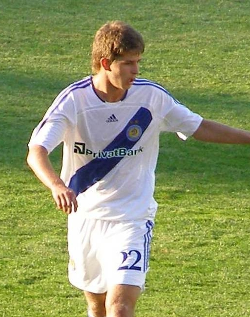 Artem Kravets - ukrainian footballer